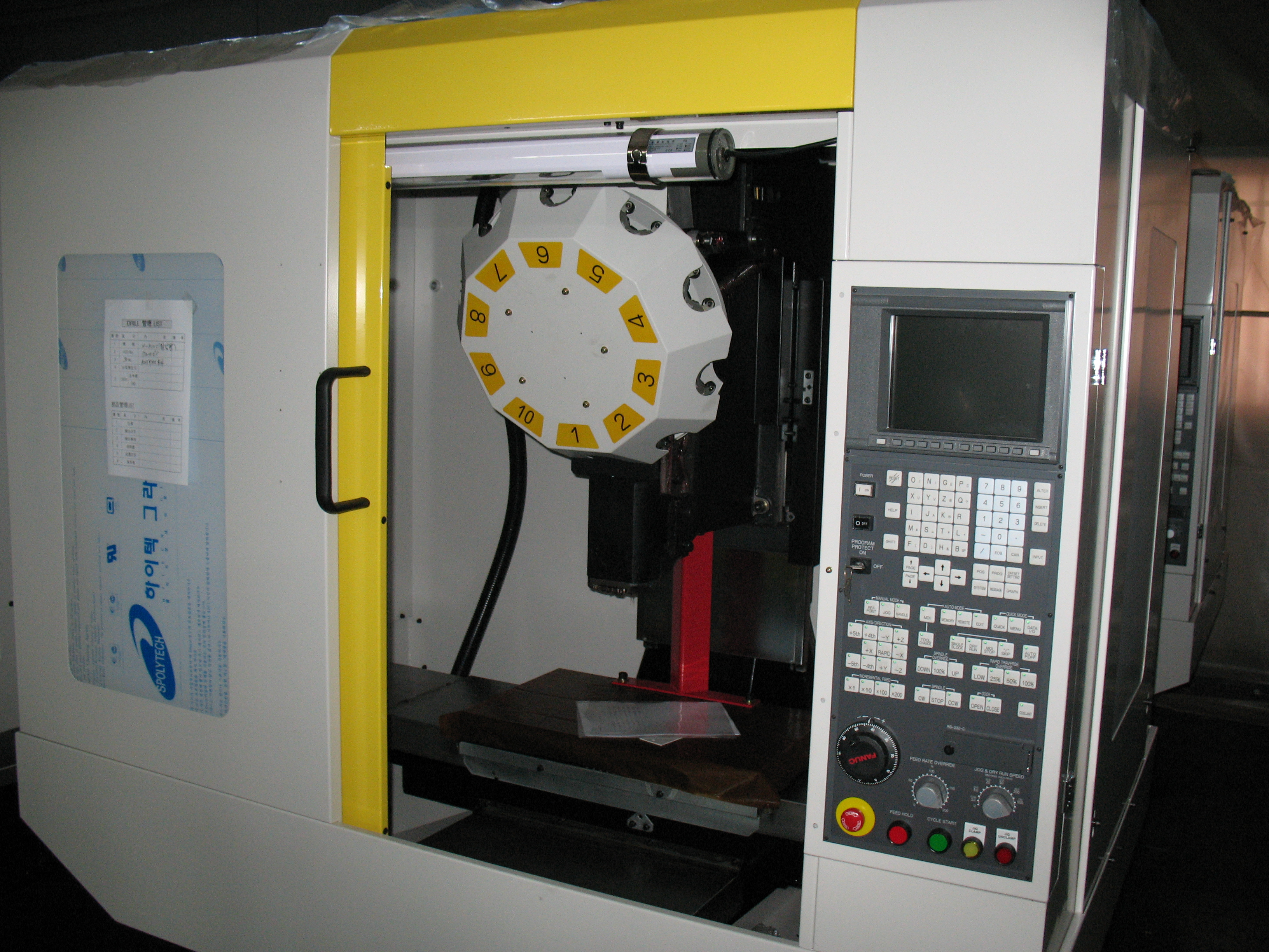 FANUC robot